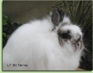 jw pic